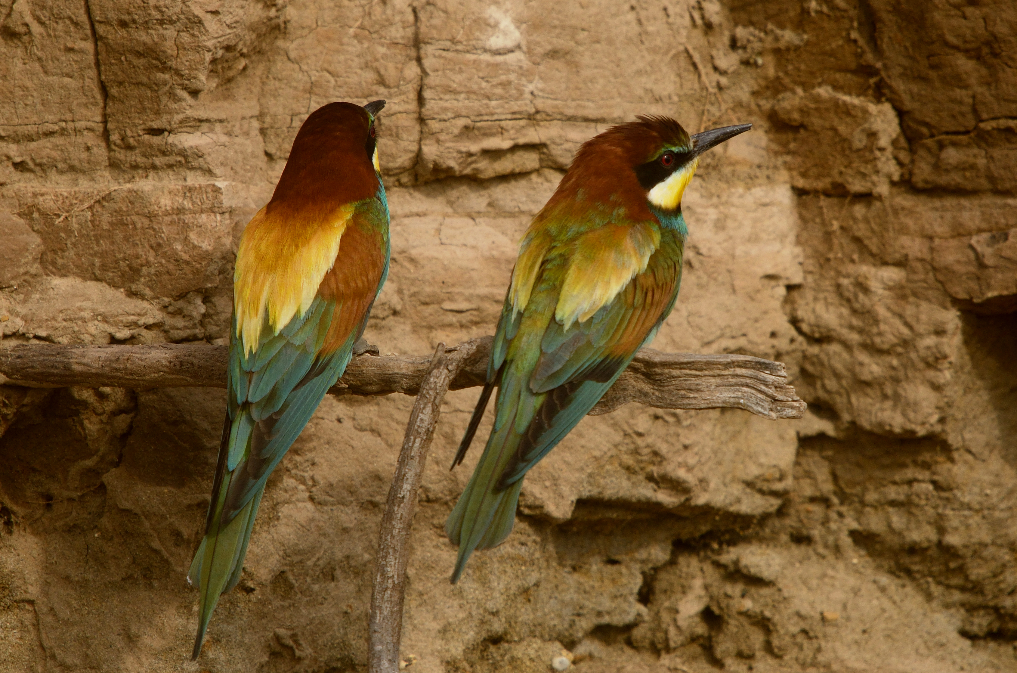 bee eater